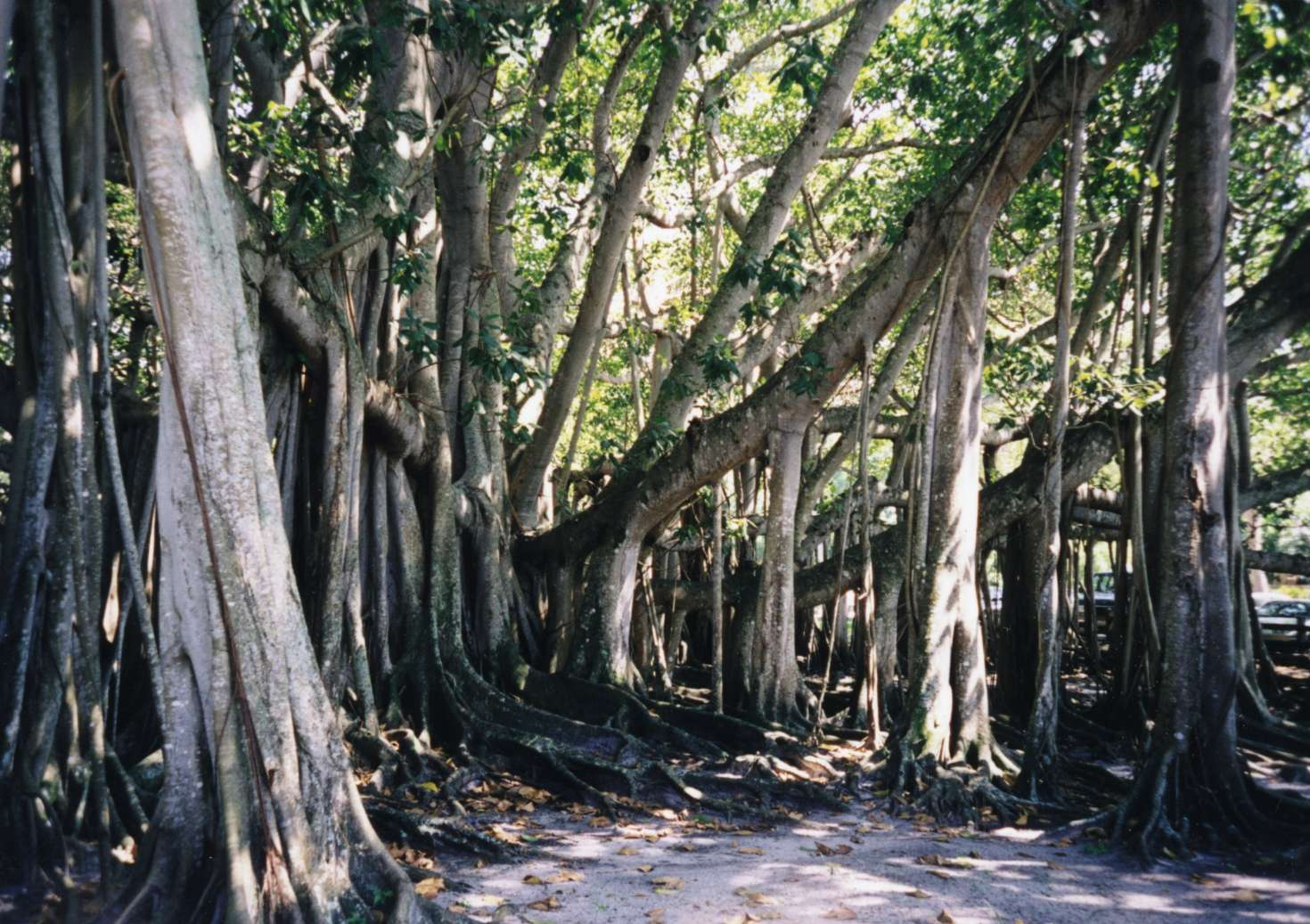 Banyan tree (Ficus benghalensis) in front of the Edison museum in Fort Myers, Florida Florida, USA. Photo taken by User:Ahoerstemeier on April 11, 1998 with a Olympus Mju 2.